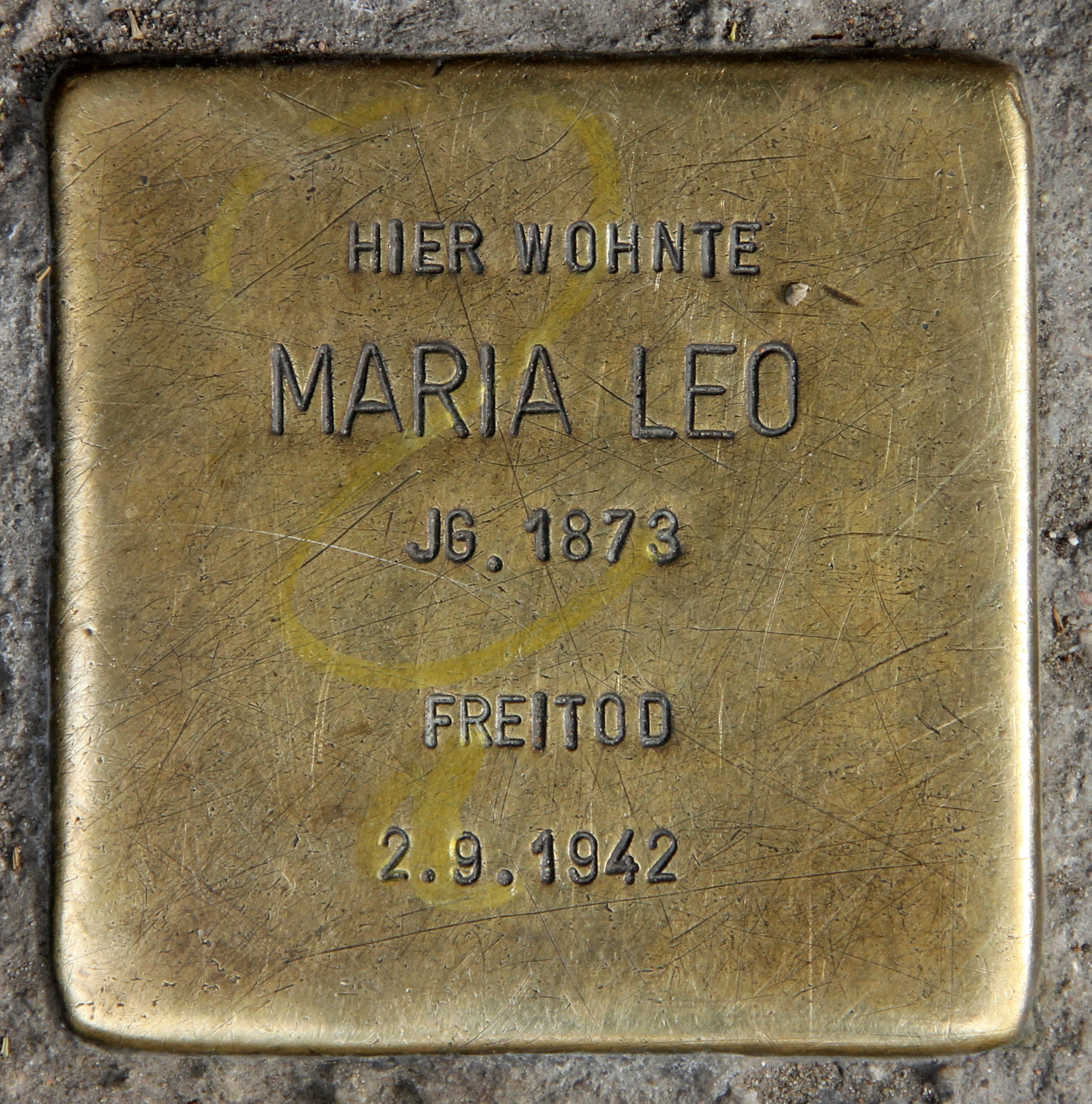 "Stolperstein" (stumbling block), Maria Leo, Pallasstraße 12, Berlin-Schöneberg, Germany